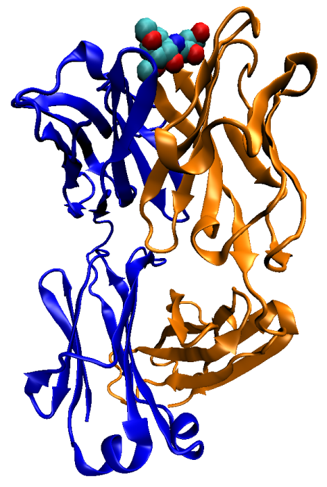 Illustration of a murine anti-cholera antibody with bound carbohydrate antigen. The heavy chain is colored orange, the light chain is blue, and the antigen is shown in van der Waals representation colored by atom type (carbon cyan, oxygen red, nitrogen blue).